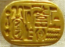 "Ring of Khufu" (Cheops). Gold. Late Period, Dynasty XXVI or XXVII. Ring bears cartouche of Cheops, from Dynasty IV, and it was originally thought to have belonged to him, but it is now believed to have belonged to a man named Neferibre, who was a priest in the cults of Isis and Cheops at Giza. "El anillo de Keops". Este anillo de oro contiene inscrito un cartucho del faraón Keops, de la dinastía IV; anteriormente, se pensaba que había pertenecido a él, pero a ahora se sabe que pertenecía a un personaje denominado Neferibra, un sacerdote en los cultos de Isis y Keops en Giza, del Periodo tardío de Egipto, que vivió durante las dinastías XXVI o XXVII.